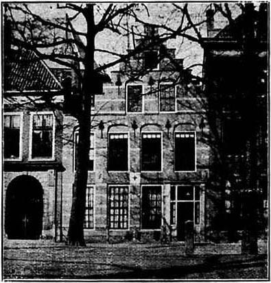 Pagehuis, Lang Voorhout 6, The Hague.